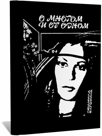 Lyudmila Vagurina, "A lot and the only one"